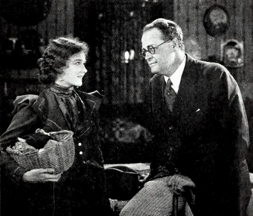 Still from the American romantic drama film Fools Highway (1924) with Mary Philbin and playwright George Middleton (1880 - 1967), who was visiting the set, on page 11 of the October 27, 1923 Universal Weekly. The caption used an early working title for the film, Morality.